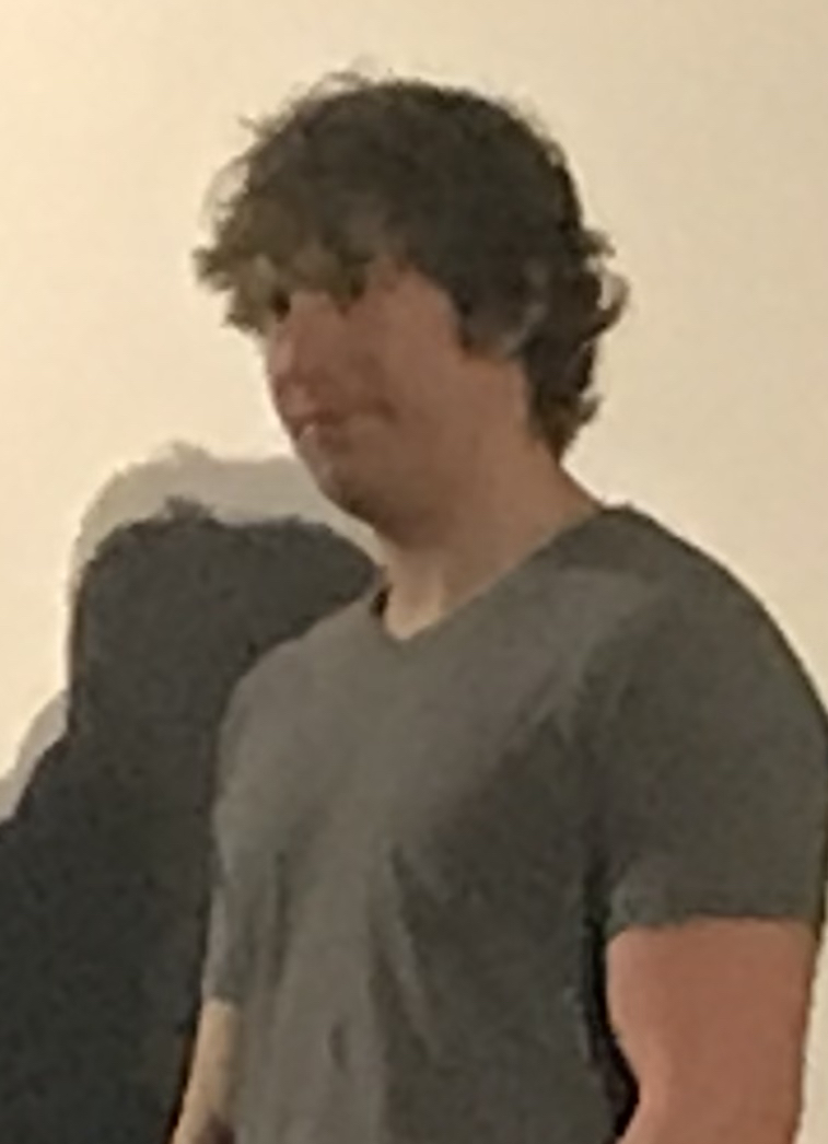 Matt Johnson, Berlinale 2020, discussion of Anne at 13,000 Ft.